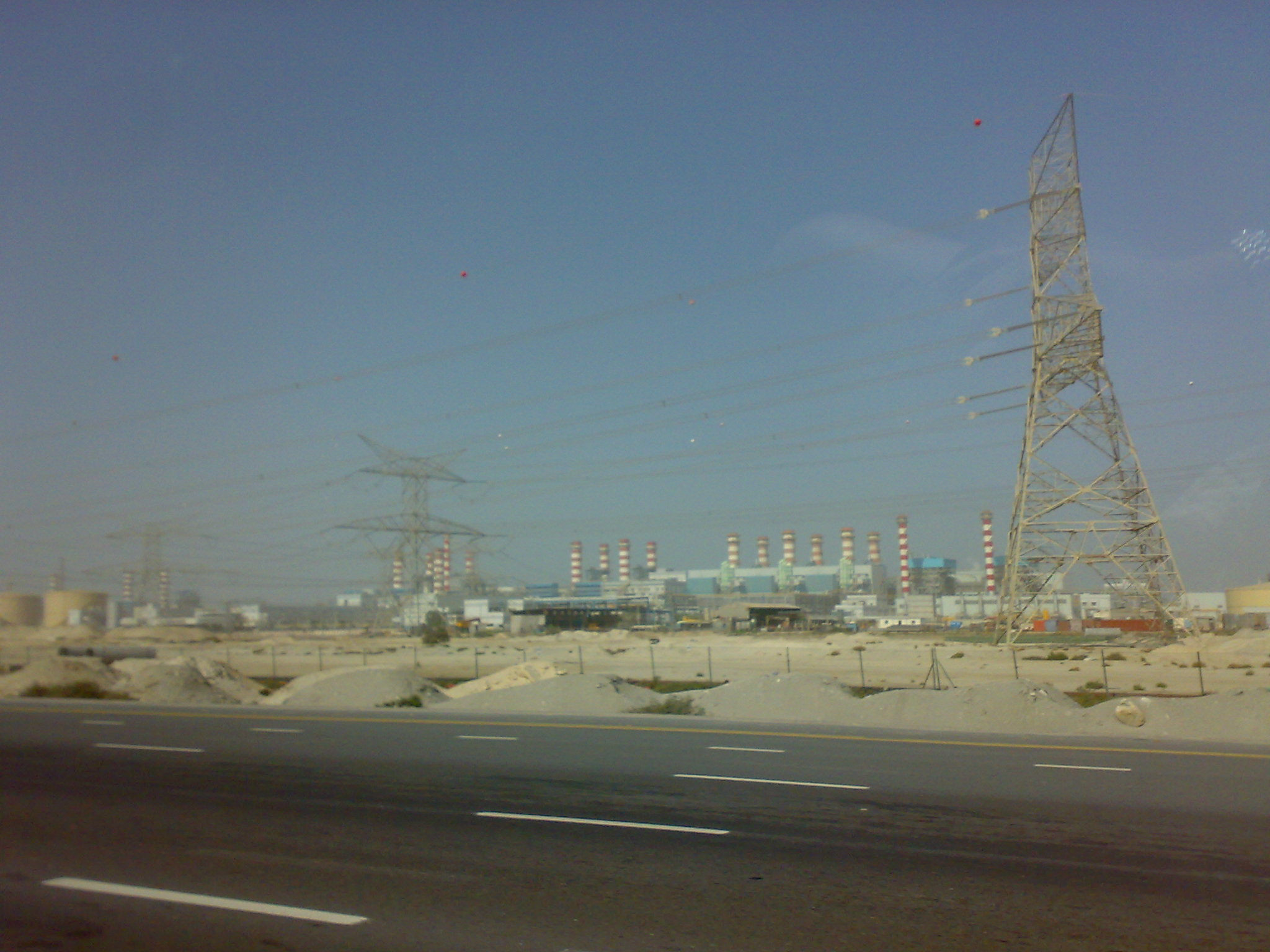 Oil-powered thermal power stations, probably just east of Jebel Ali Free Zone, west of Dubai Marina, Dubai (UAE)